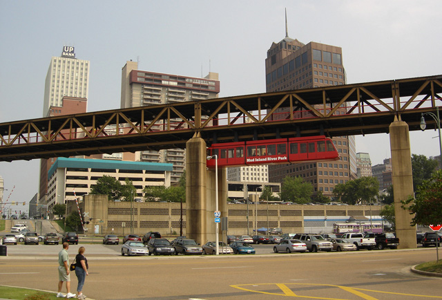 Memphis, Tennessee, across the visitors center. Monorail connection from Front Street to the Mississippi River Park and Museum on Mud Island. Above the monorail is a pedestrian bridge.